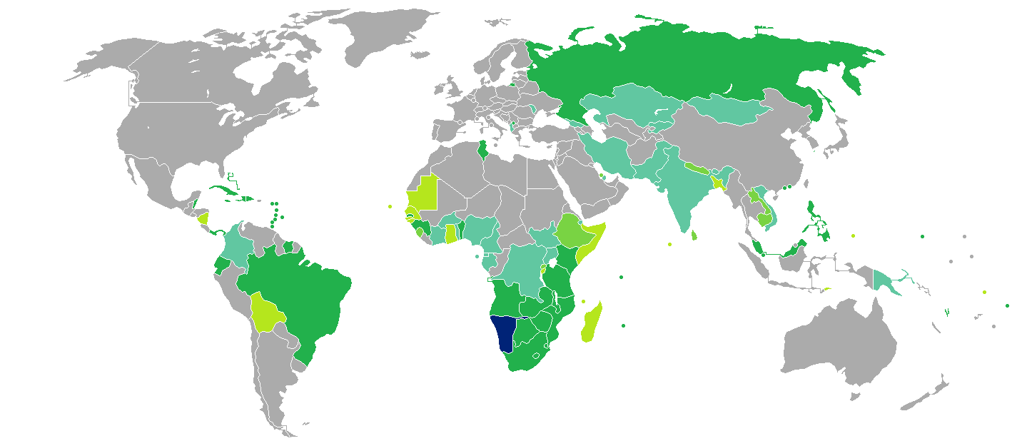 map of visa requirements for Namibian passport holders. Namibia Visa free access Visa on arrival eVisa Visa required